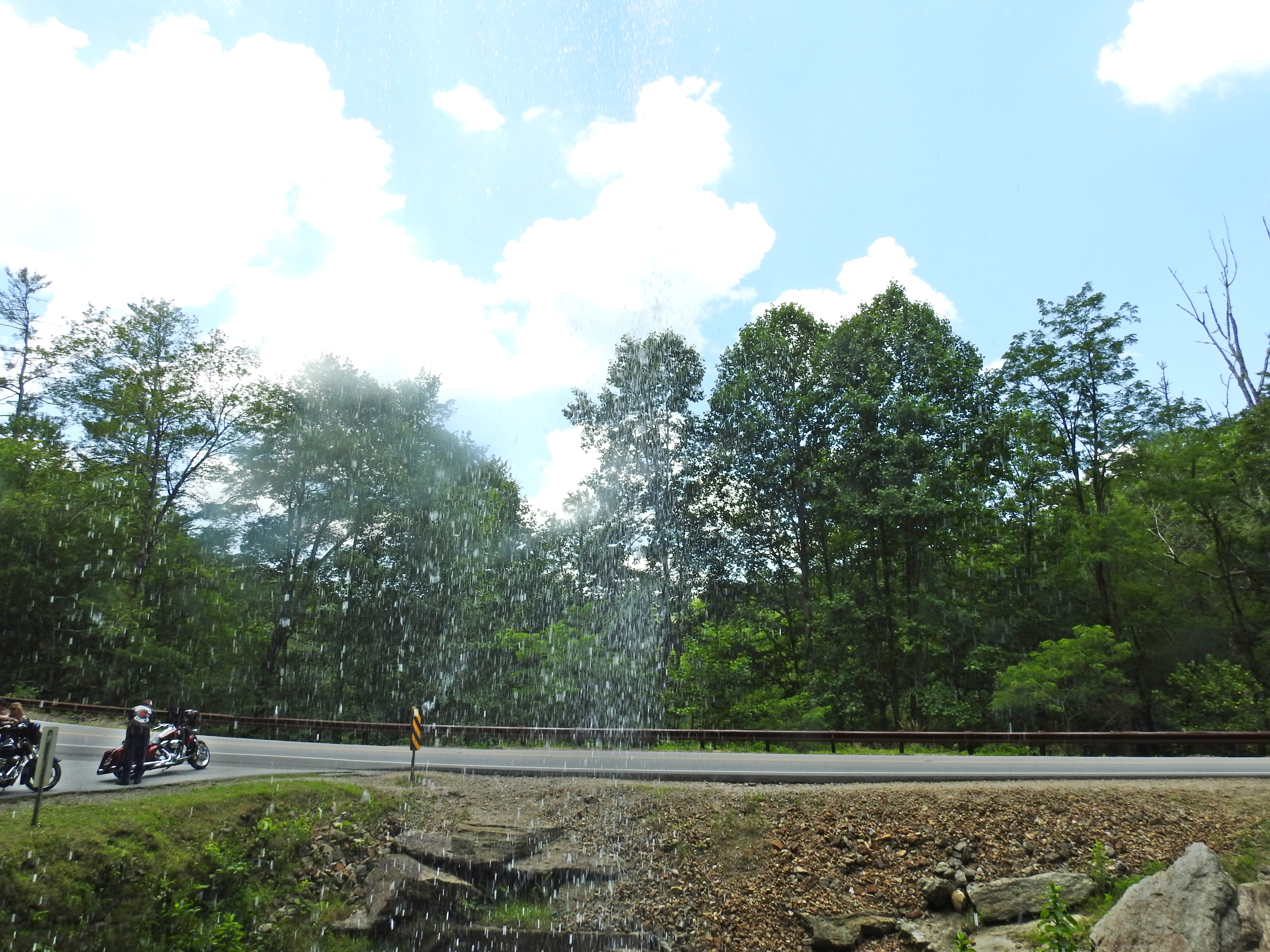 A look through Bridal Veil Falls in Macon County, North Carolina, to US Route 64.